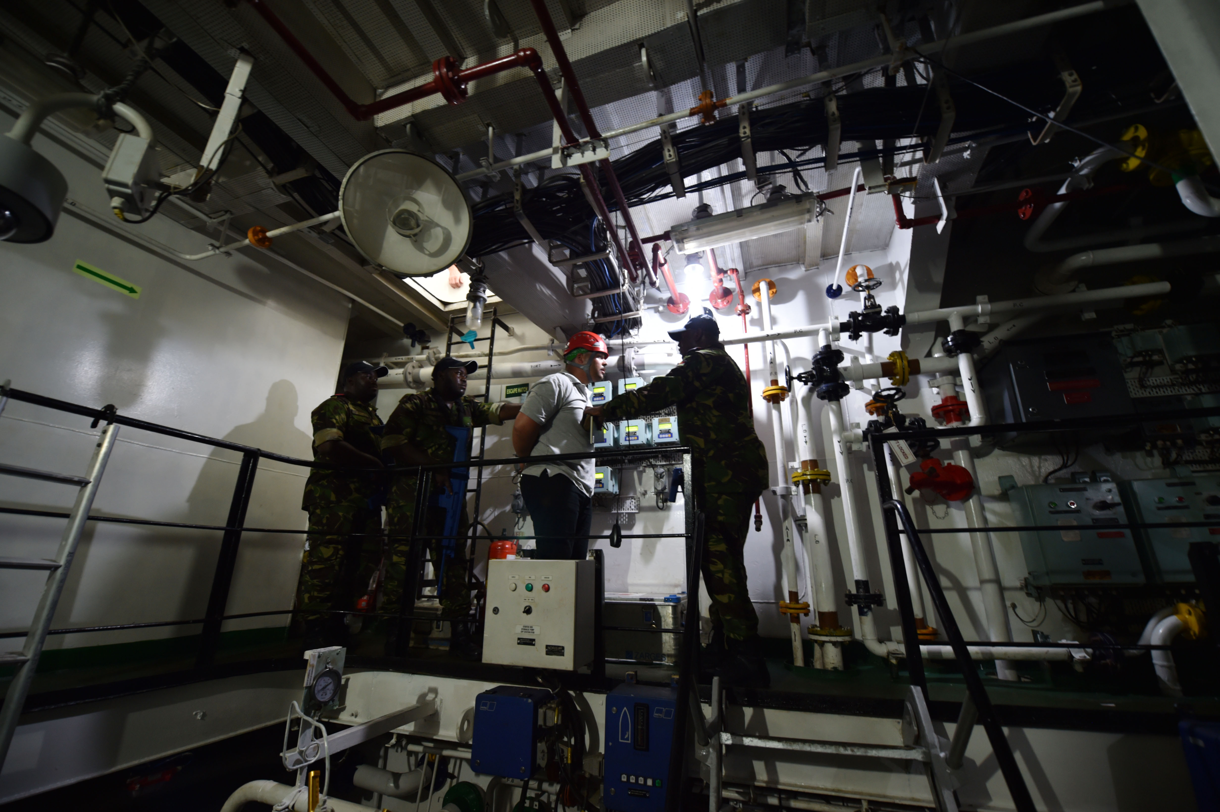 170205-N-XT273-742 PORT LOUIS, Mauritius (Feb. 05, 2017) Comoros Sailors participate in visit, board, search and seizure training aboard Mauritius Coast Guard ship Barracuda during Exercise Cutlass Express 2017 Feb. 05, 2017. Exercise Cutlass Express 2017, sponsored by U.S. Africa Command and conducted by U.S. Naval Forces Africa, is designed to assess and improve combined maritime law enforcement capacity and promote national and regional security in East Africa. (U.S. Navy photo by Mass Communication Specialist 1st Class Justin Stumberg/Released)